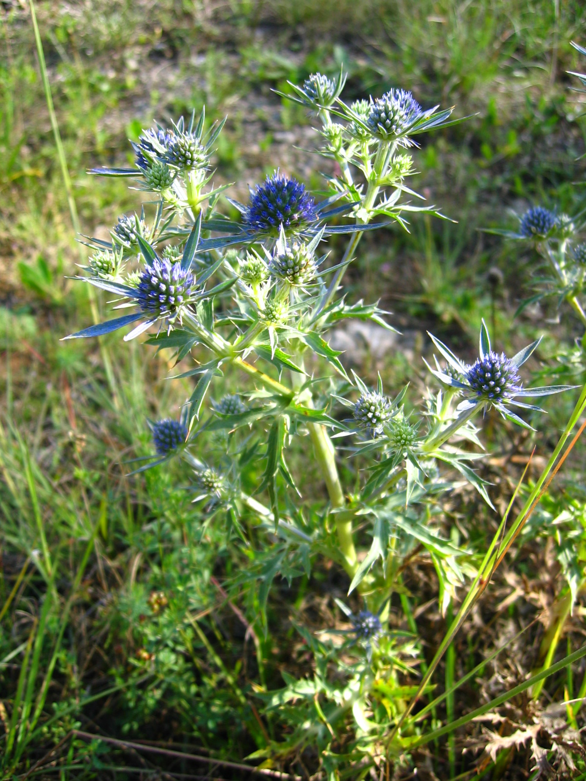 Eryngium amethystinum, picture taken in central Croatia near Slunj